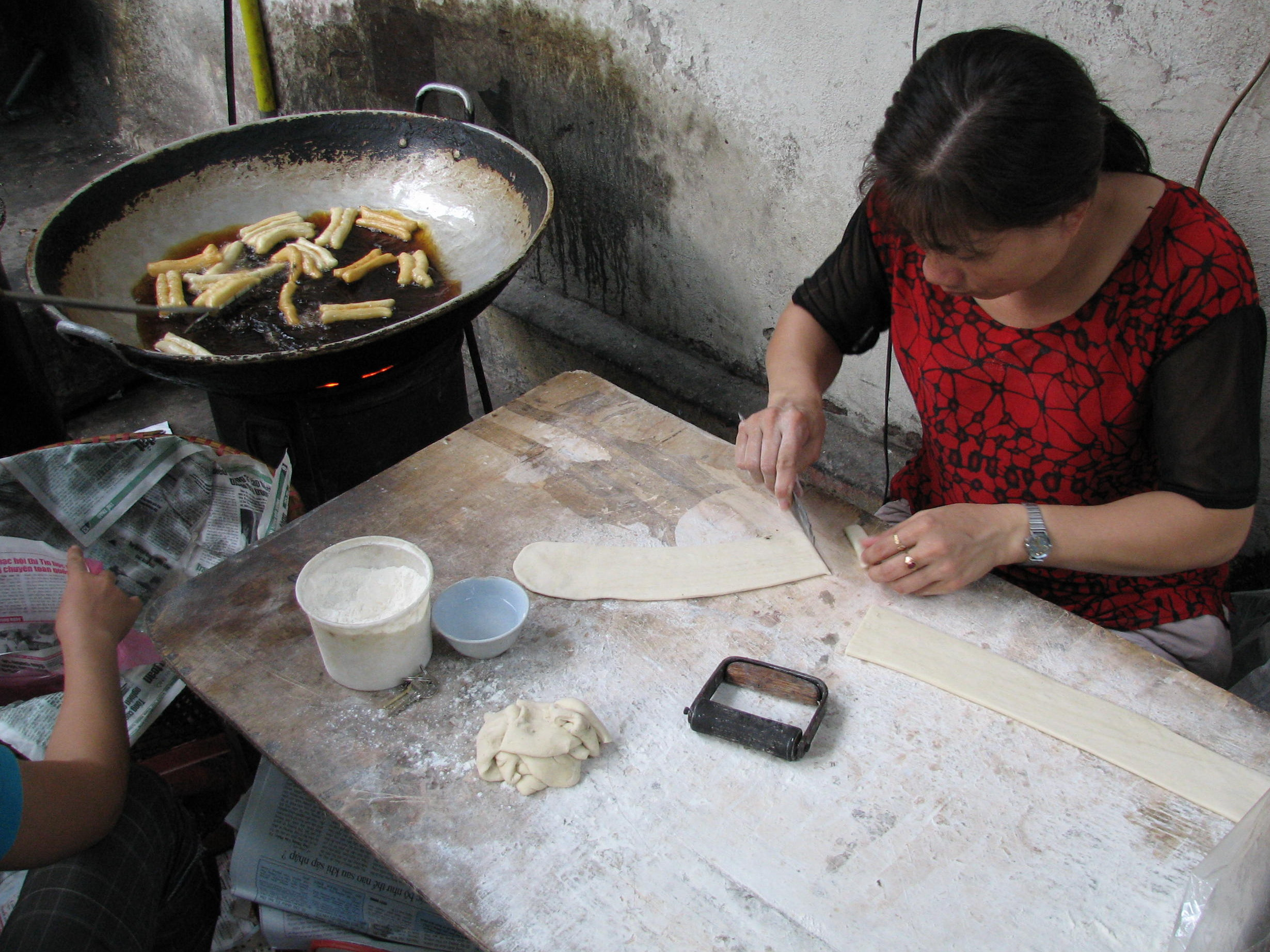 Making quẩy (Youtiao) in a street of Hanoi.